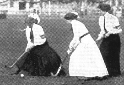 Women playing field hockey ca. 1910, when long full skirts were still required (though not very compatible with athleticism).